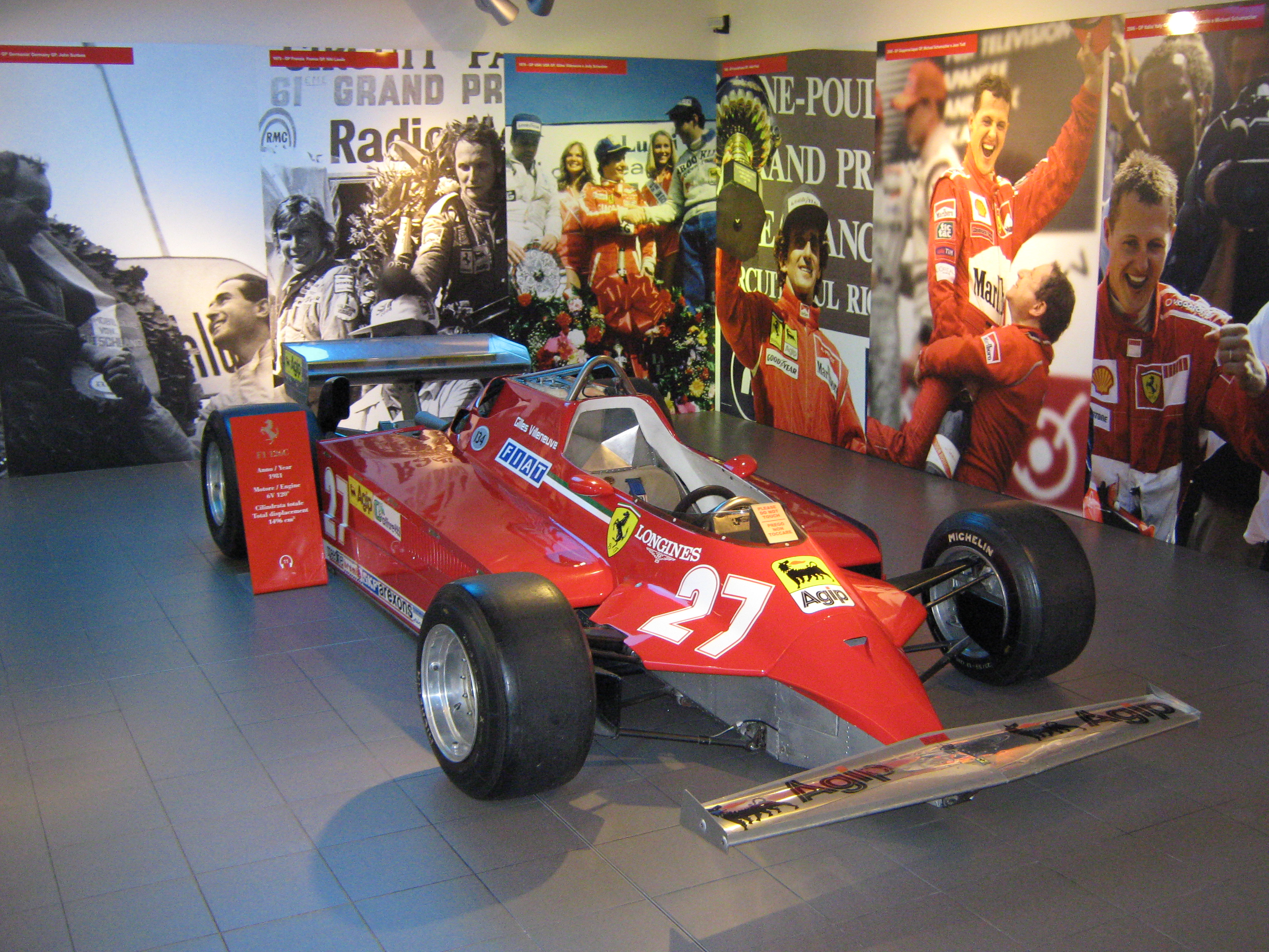 1981 Formula One Championship Ferrari 126 CK, equipped with a 1,500 cc turbocharged engine; the exposed car was the no. 27 driven by the Canadian Gilles Villeneuve. The car is exposed at Ferrary Gallery, Maranello (province of Modena).